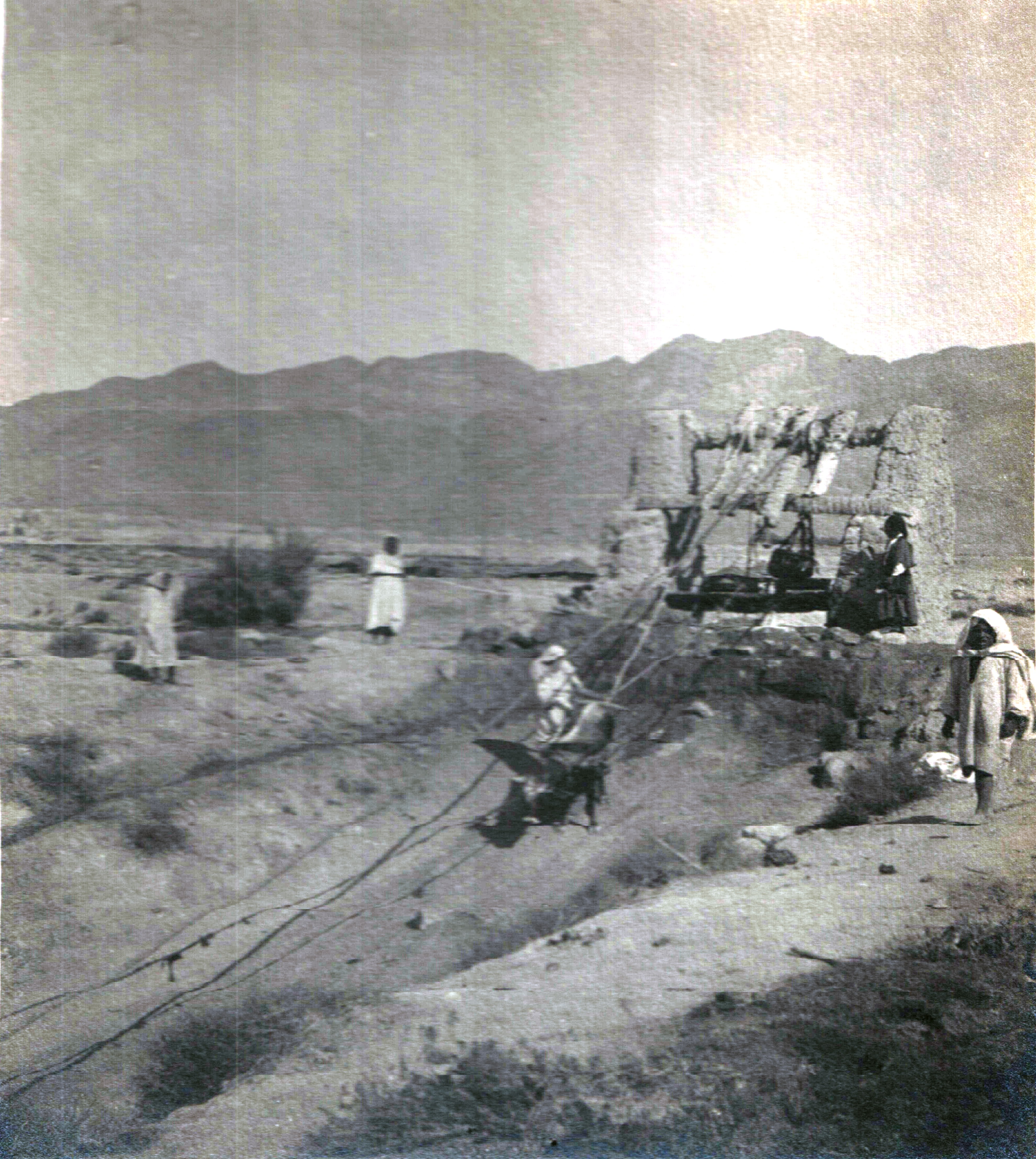 Views and photos of the Sahara desert and other regions in Africa.